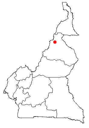 Garoua, Cameroon Location Map; created with the GIMP. Made by User:Acntx.